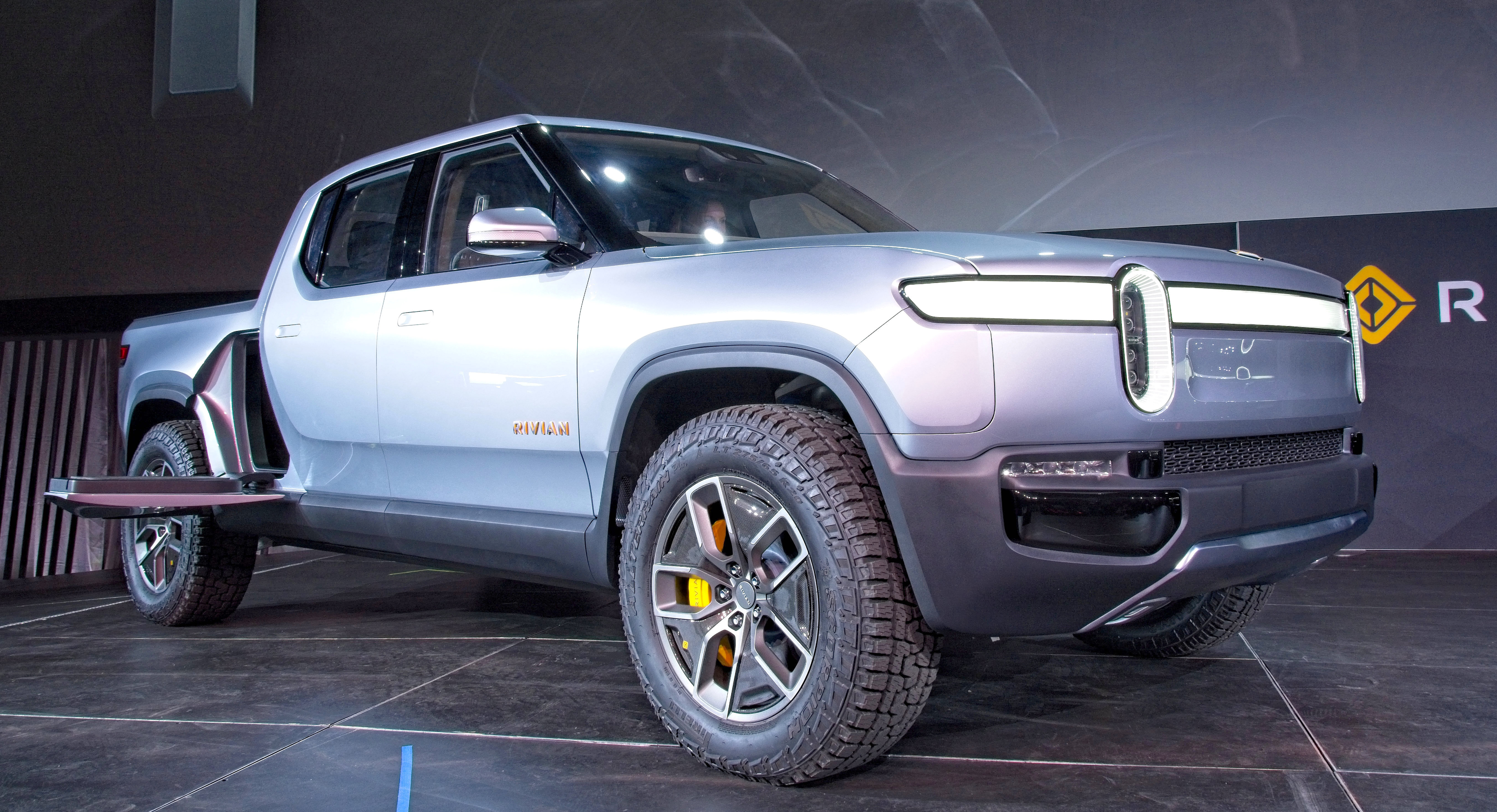 Debut of the Rivian R1T pickup at the 2018 Los Angeles Auto Show, November 27, 2018. if using this image